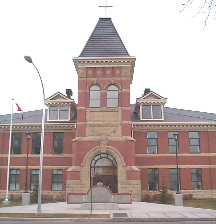 Subject: Our Lady of Lourdes in Calgary, Alberta Description: Our Lady of Lourdes (opened in 2005) was built using the facade of the 1909 St. Mary's School (which is the prime signficance of the photo). It illustrates the use red sandstone (sandstone being common in the early 20th century in Calgary). Not clear in the picture, the sign out front reads "Our Lady of Lourdes", but the etching on the building itself reads "St. Mary's School". Related article: St. Mary's High School (Calgary, Alberta) Photographer: User:Thivierr Copyright release: The original copyright holder (photographer and uploader) release this image to the public domain, without condition. Category:School images